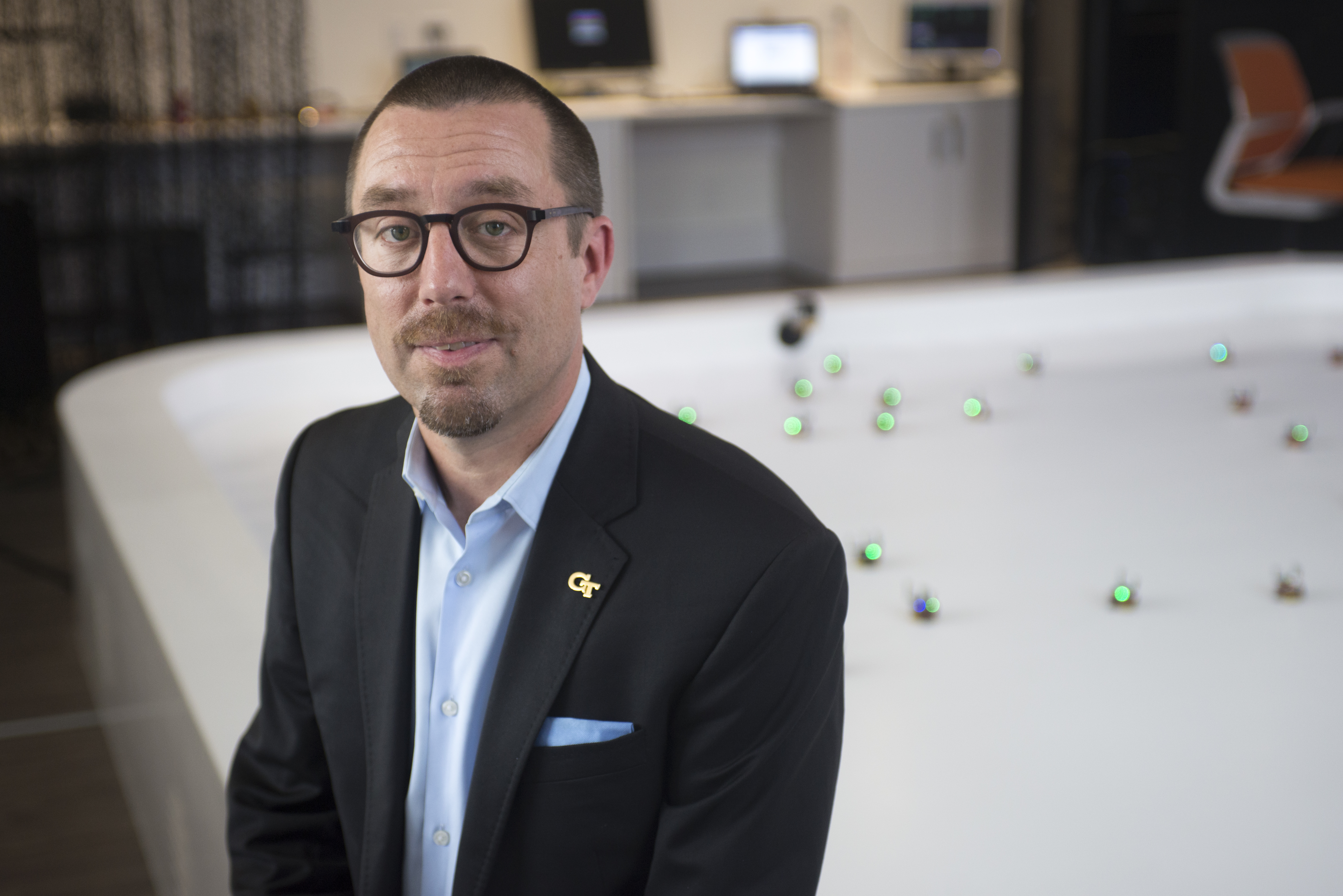 Magnus Egerstedt, Steve W. Chaddick School Chair and Professor in the School of Electrical and Computer Engineering at the Georgia Institute of Technology, poses in the Robotarium.